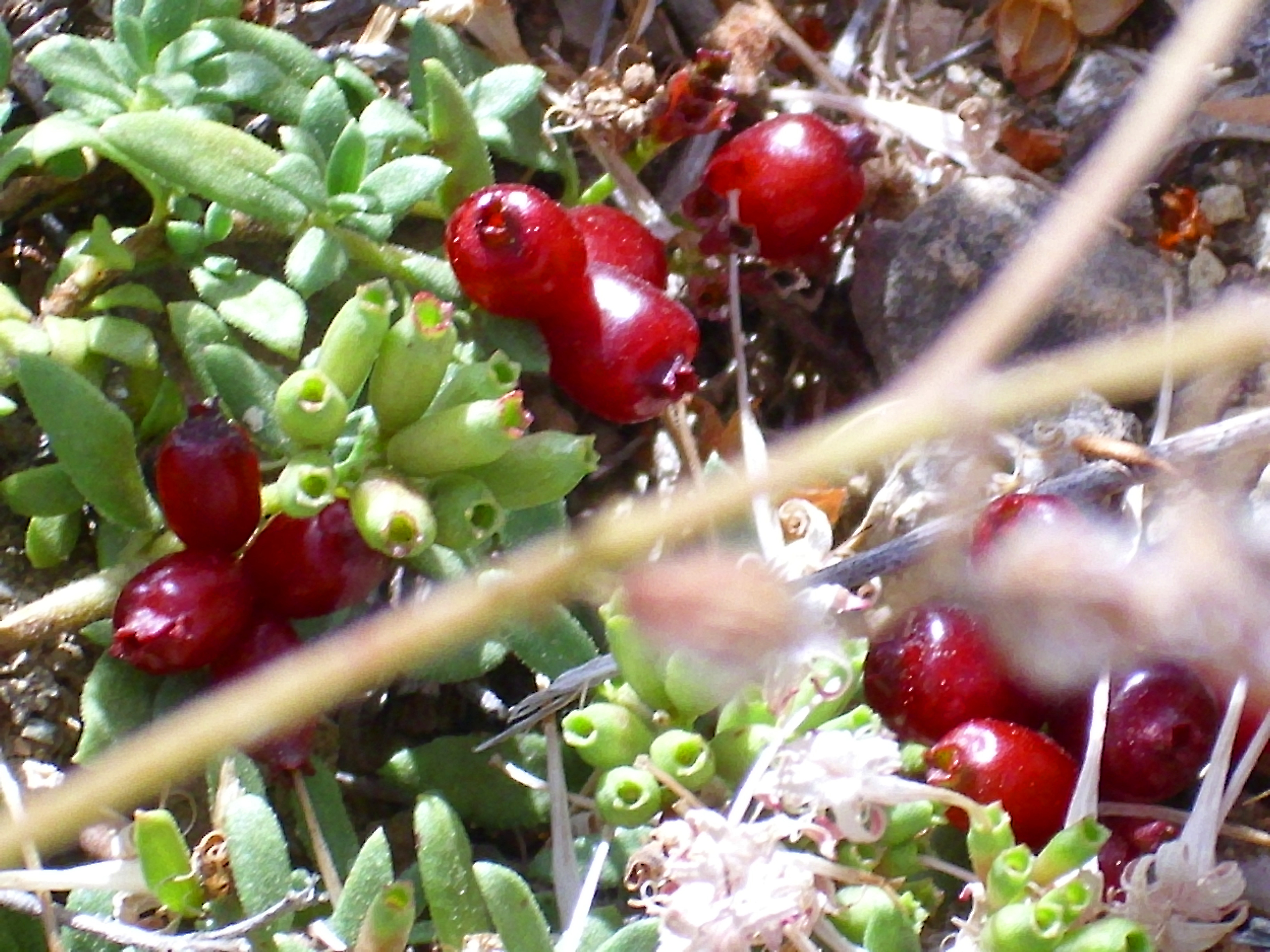 Putoria calabrica fruits close up, in Sierra de Alfacar y Víznar, Granada, Spain.